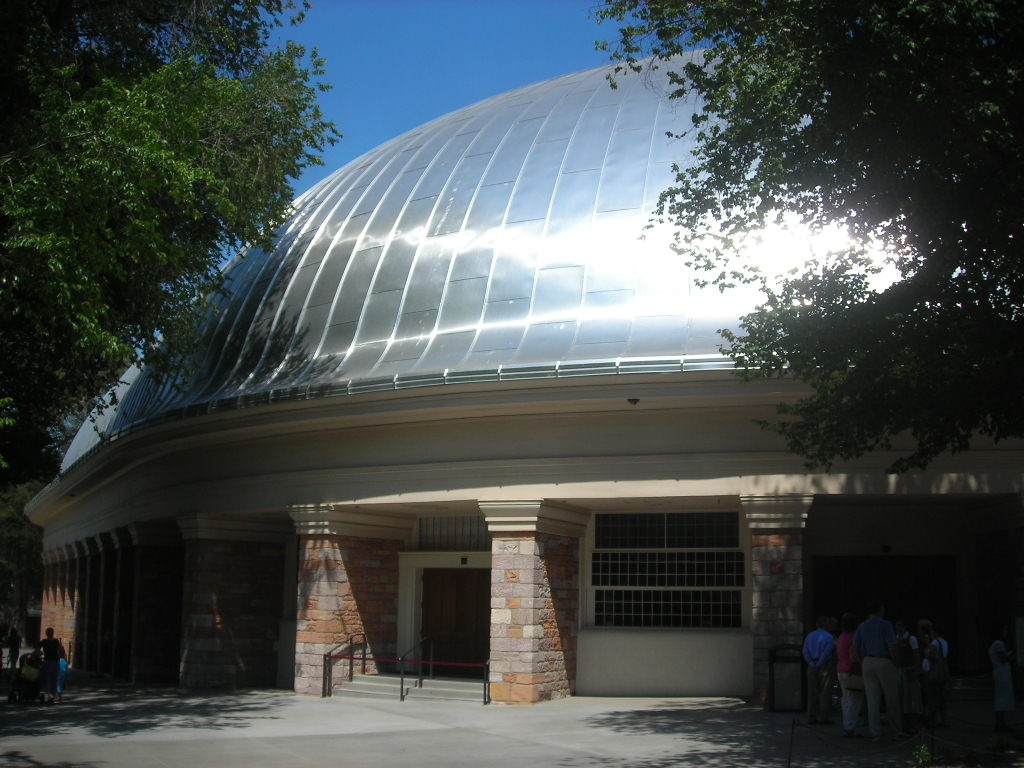 The Salt Lake Tabernacle of The Church of Jesus Christ of Latter-day Saints in 2008.